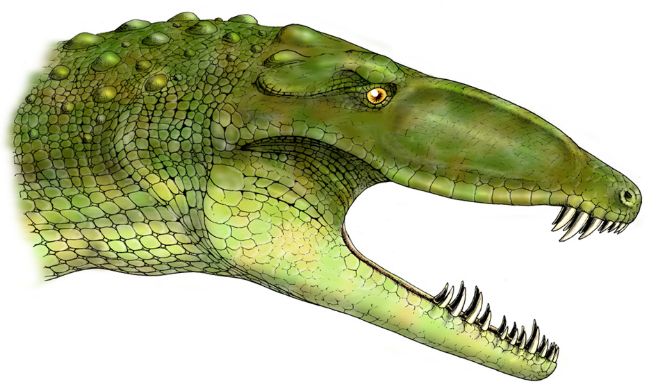 Erpetosuchus a Archosauromorph